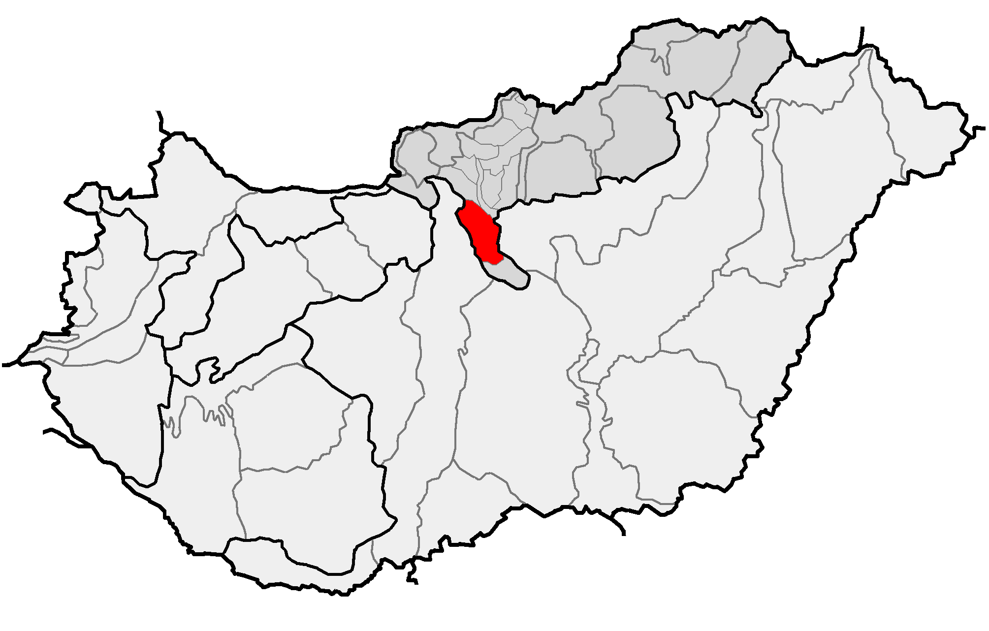 Location of geographical microregion of Gödöllői-dombság (red) and macroregion of Északi-középhegység (gray) within subdivisions of Hungary.